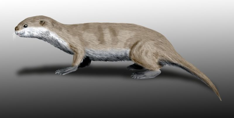 Puijila darwini, a pinniped from the Early Miocene of Canada. Digital.